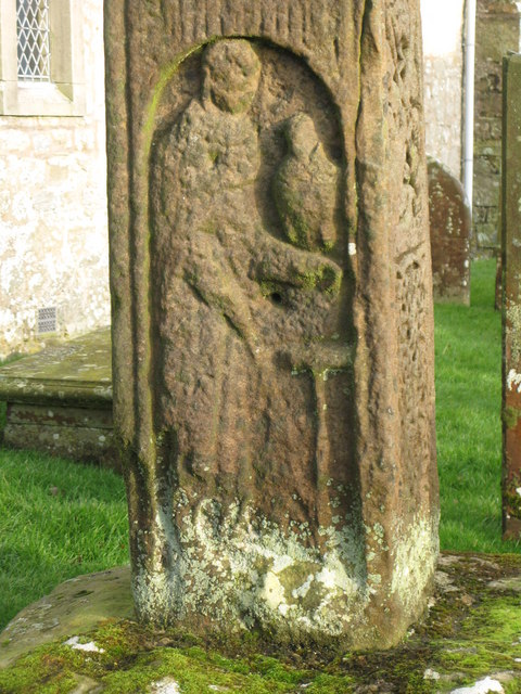 The 7th C Bewcastle Cross - St. John the Evangelist, near to Bewcastle, Cumbria, Great Britain. See NY5674 : The 7th C Bewcastle Cross .